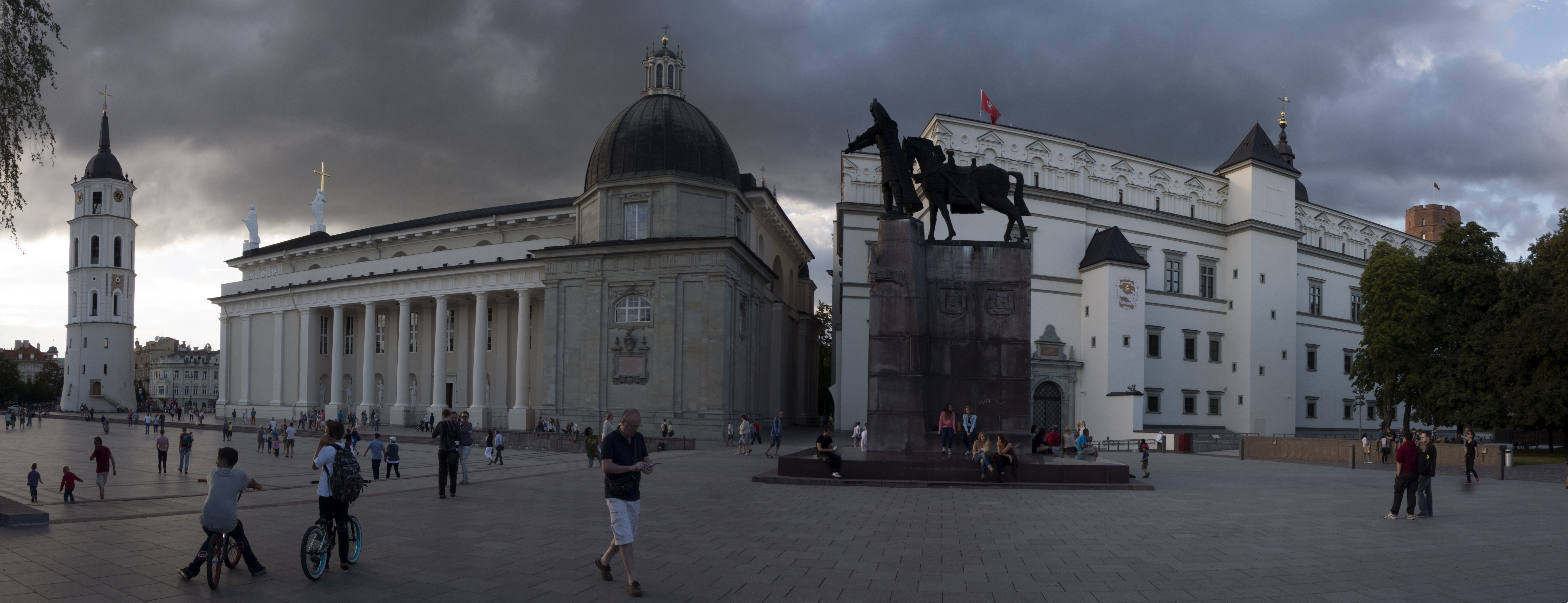 Cathedral Square in Vilnius